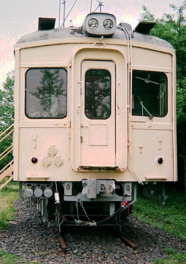 Tobu Railway 7300 series EMU car MoHa 7329 preserved at Tobu Dobutsukoen